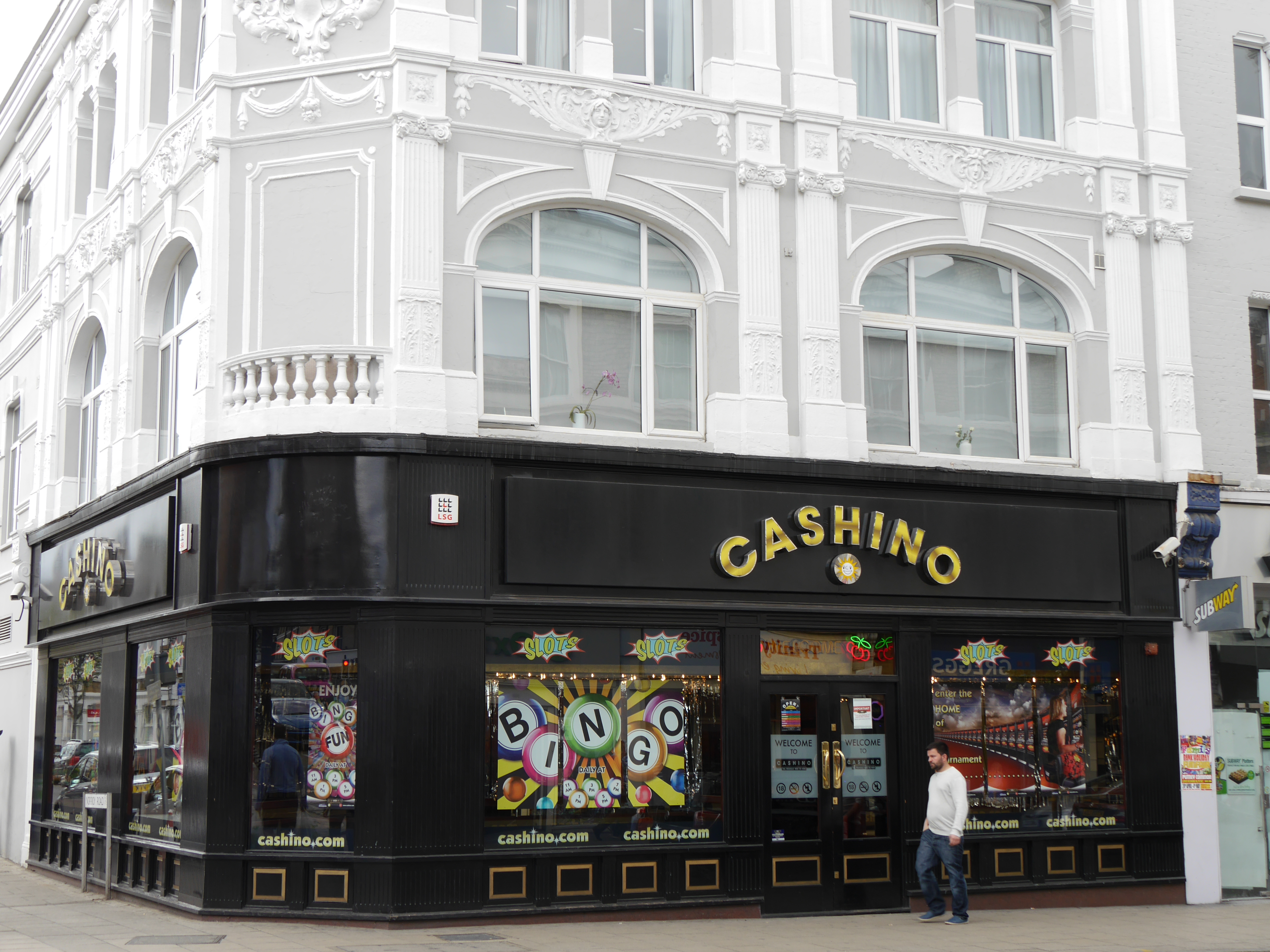 Cashino, Putney, London